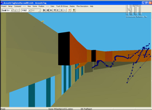 Acoustic Tag Post Processing Example of Tracked Juvenile Salmonid